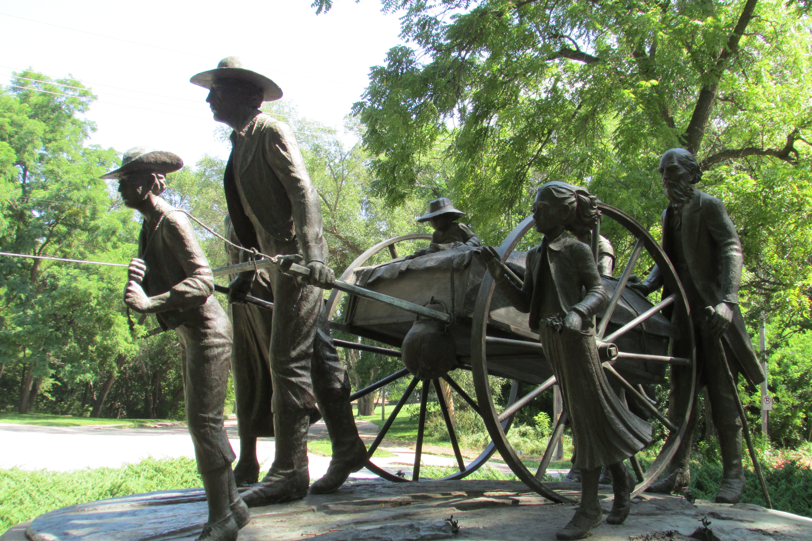 Statue of Handcart pioneers in front of the Mormon Trail Center (Winter Quarters) in Omaha, Nebraska.